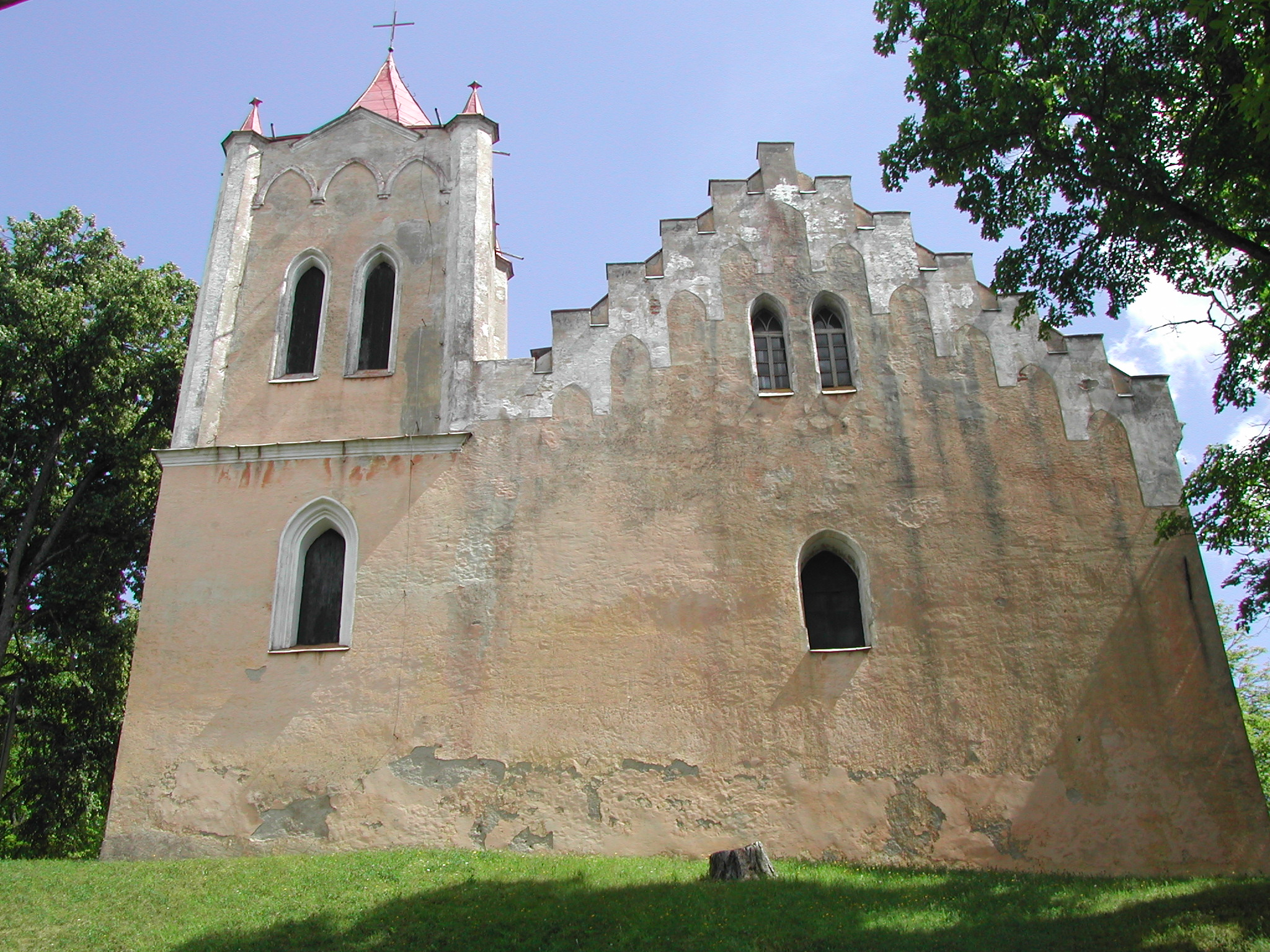 Church in Aizpute, Latvia